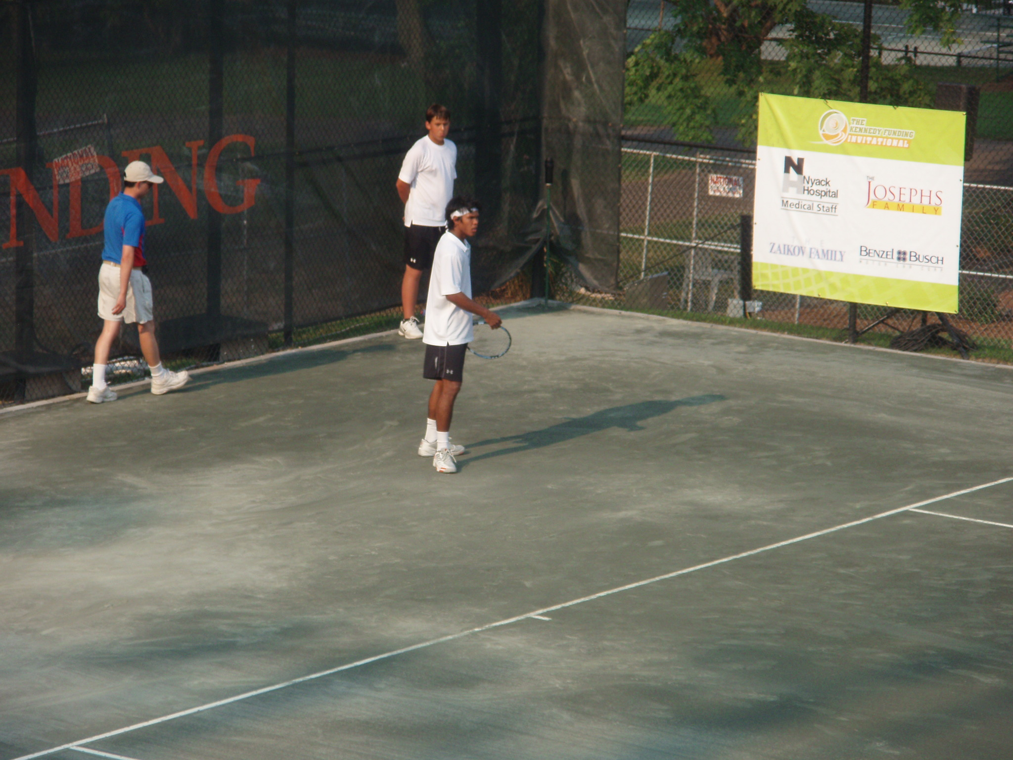 Somdev Devvarman Playing In Kennedy Funding Invitational In New City, New York July 2008